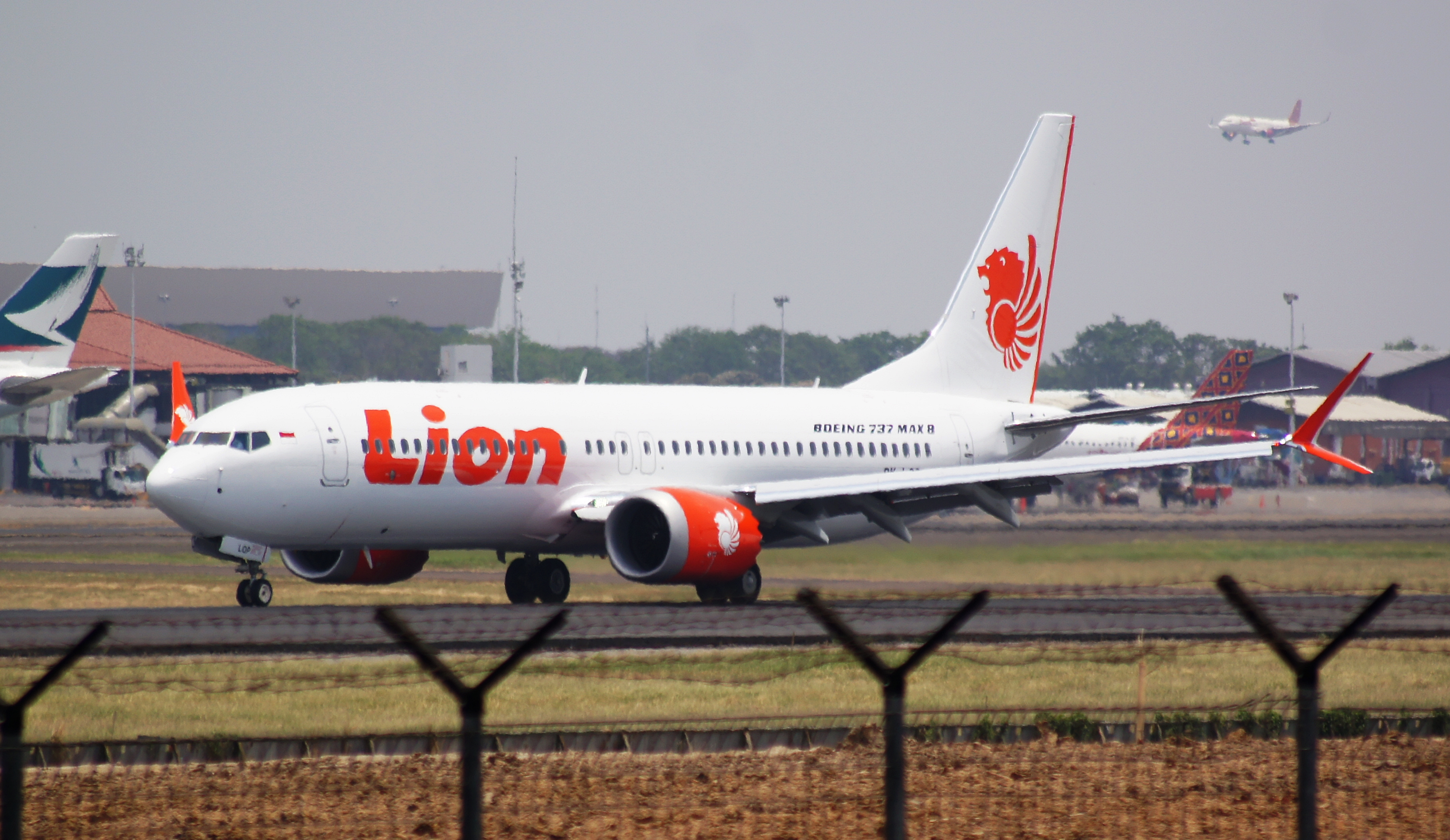 13/08/2018 PK-LQP Lion Air This aircraft crashed as Flight 610